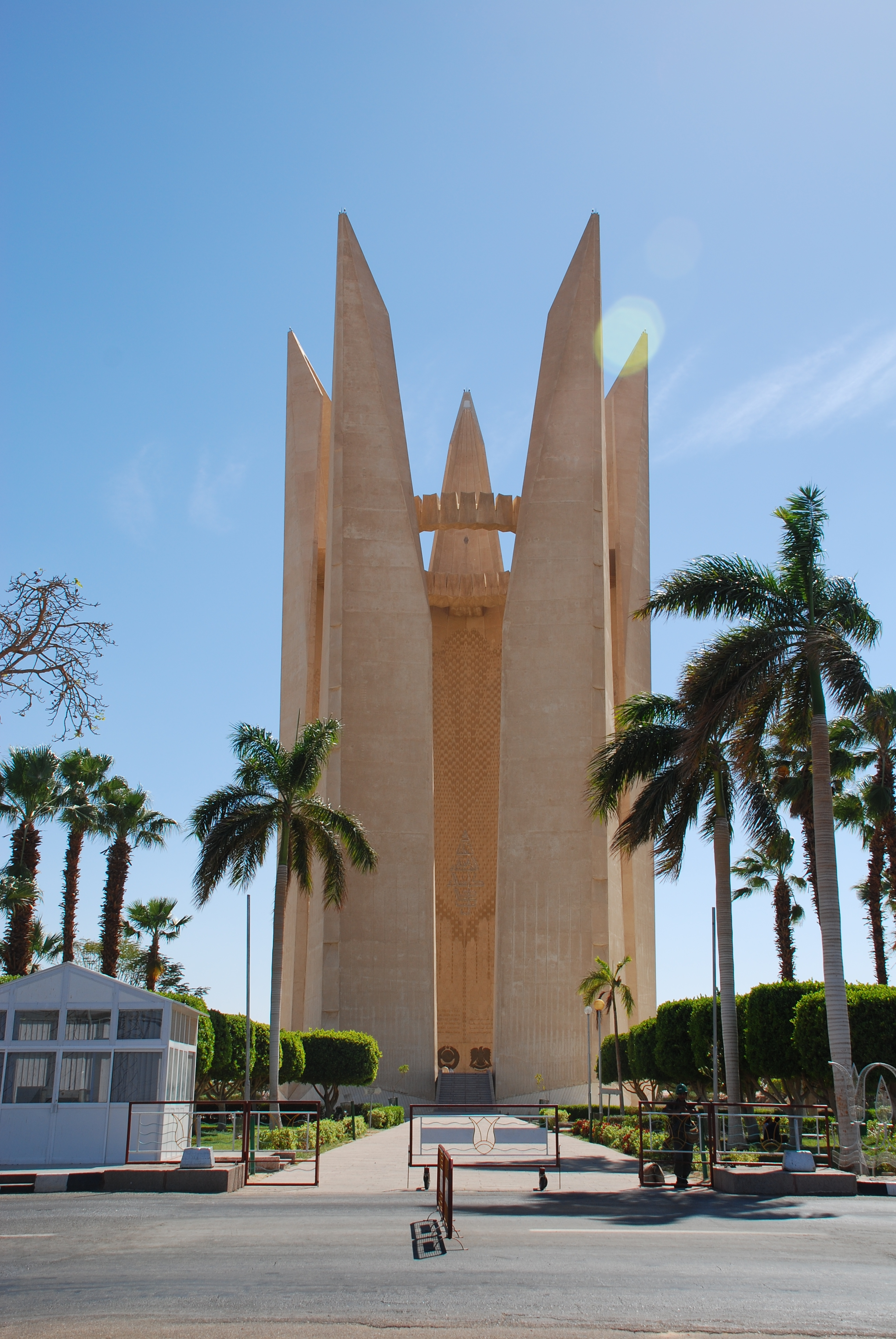 Ernst Neizvestny's 1971 sculpture Lotus Flower, located at the Aswan Dam in Egypt.